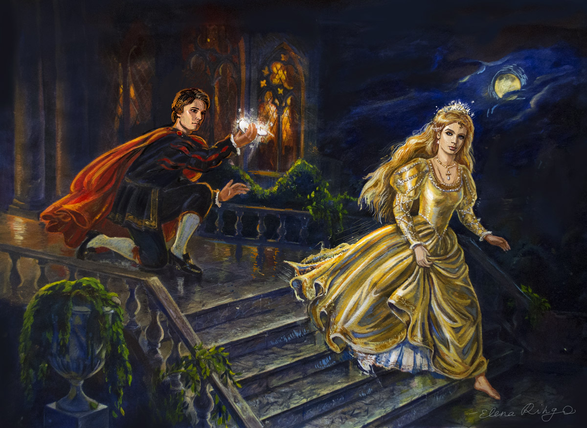 Elena Ringo's Illustration of Cinderella